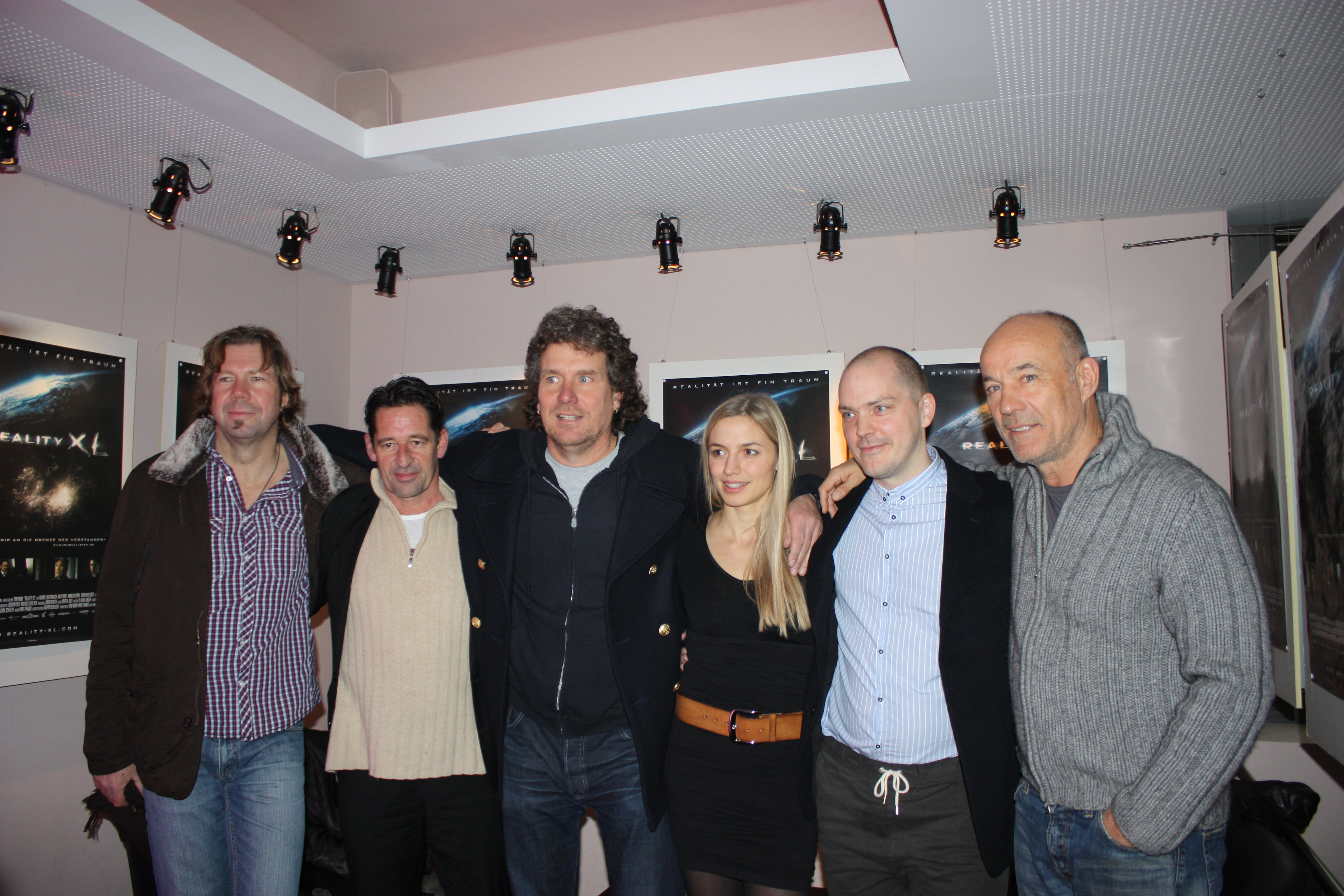 Reality XL actors and producers. From left to right: Hans Franek (producer), Max Tidof, Tom Bohn (producer), [Annika Blendl], Godehard Giese, Heiner Lauterbach. Picture take at the premiere in Starnberg.